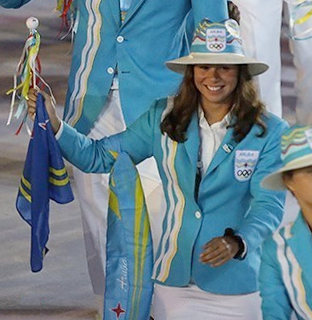 Aruba athletes at the 2016 Summer Olympics